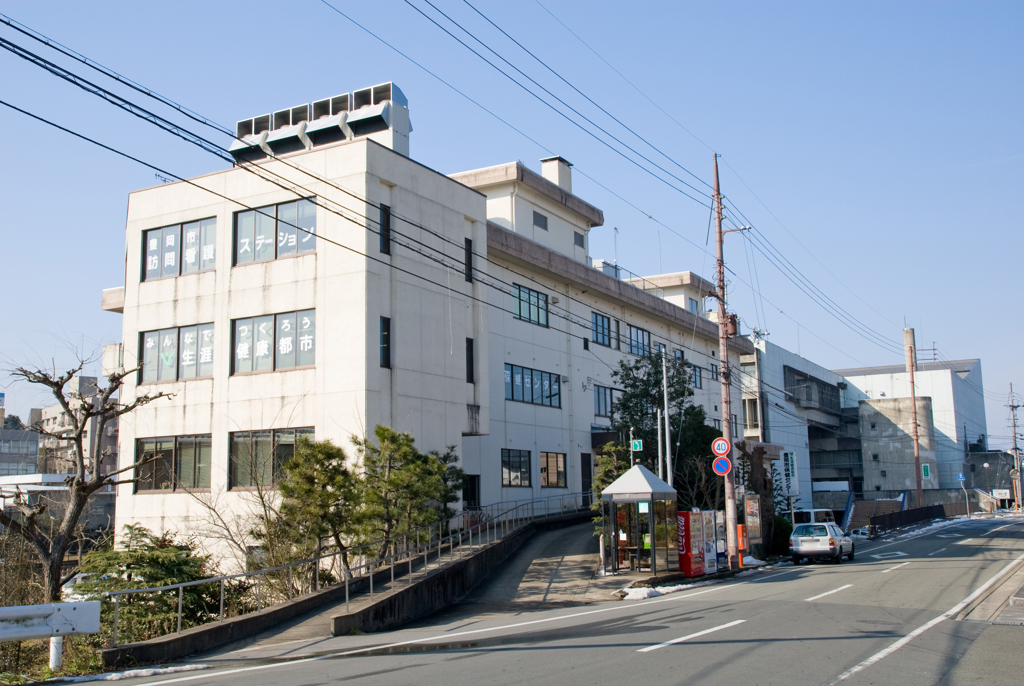 Toyooka Welfare hall in Toyooka, Hyogo, Japan.